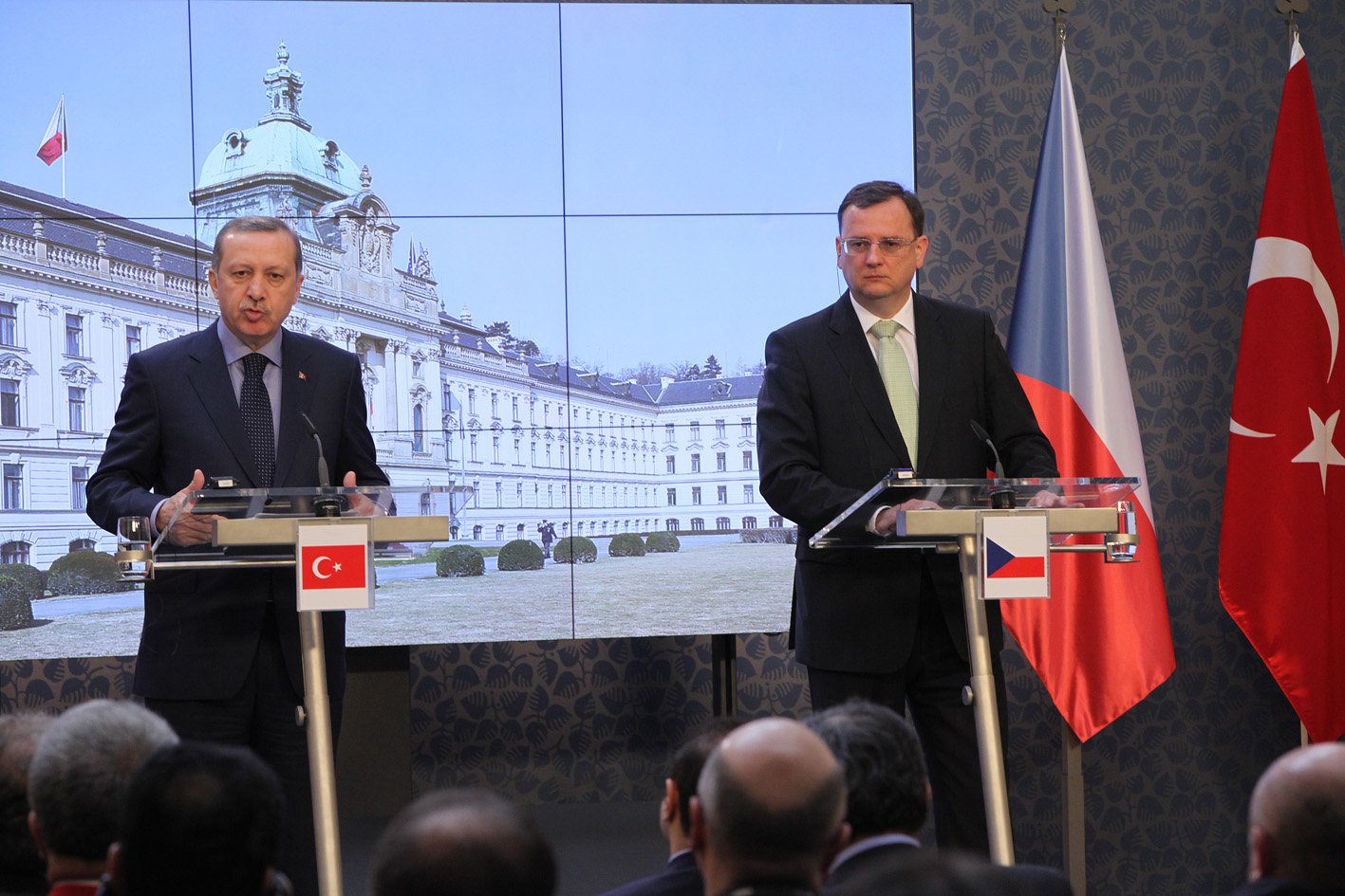 Společná tisková konference Petra Nečase a předsedy turecké vlýdy Recepa Tayyipa Erdogana. On February 4, 2013, Czech Prime Minister Petr Nečas met with Turkish Prime Minister Recep Tayyip Erdogan in Czech Republic.